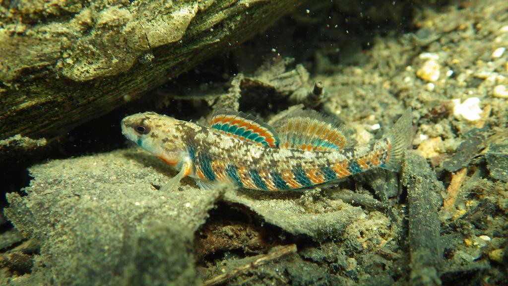 Rainbow darter (Etheostoma caeruleum)